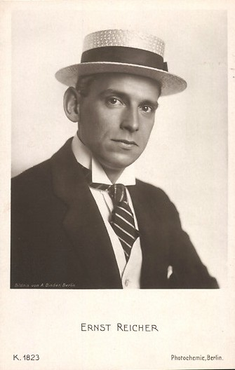 Postcard portrait of German actor, screenwriter, film director and film producer Ernst Reicher (1885–1936 ) by Alexander Binder, Berlin.